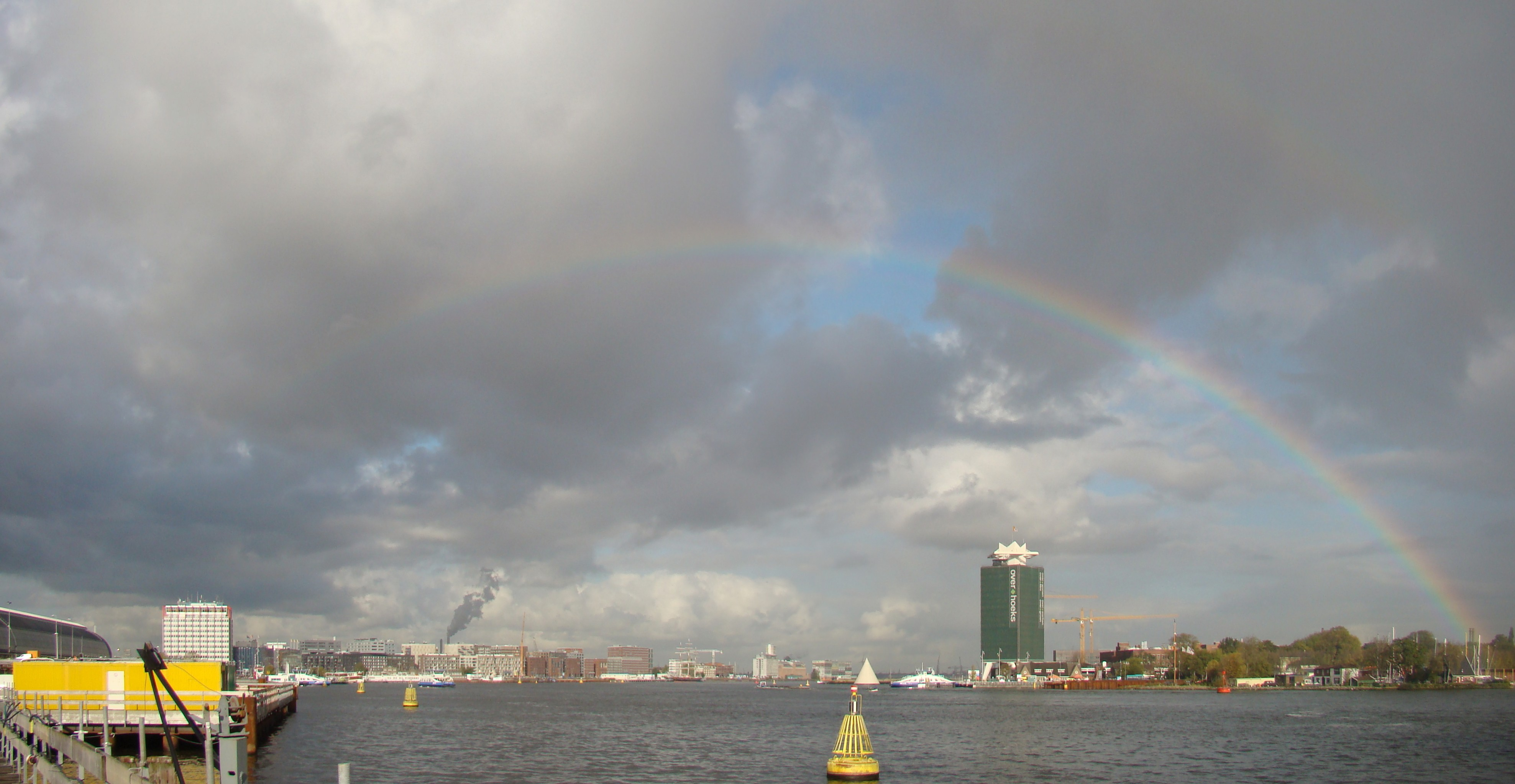 IJ view Amsterdam with rainbow